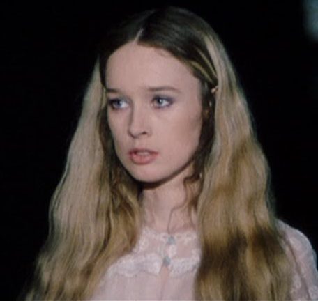 Camille Keaton in Tragic Ceremony